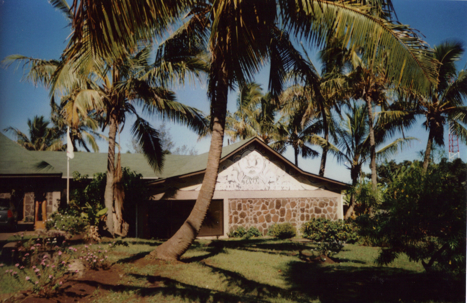 Town Hall, Hangaroa